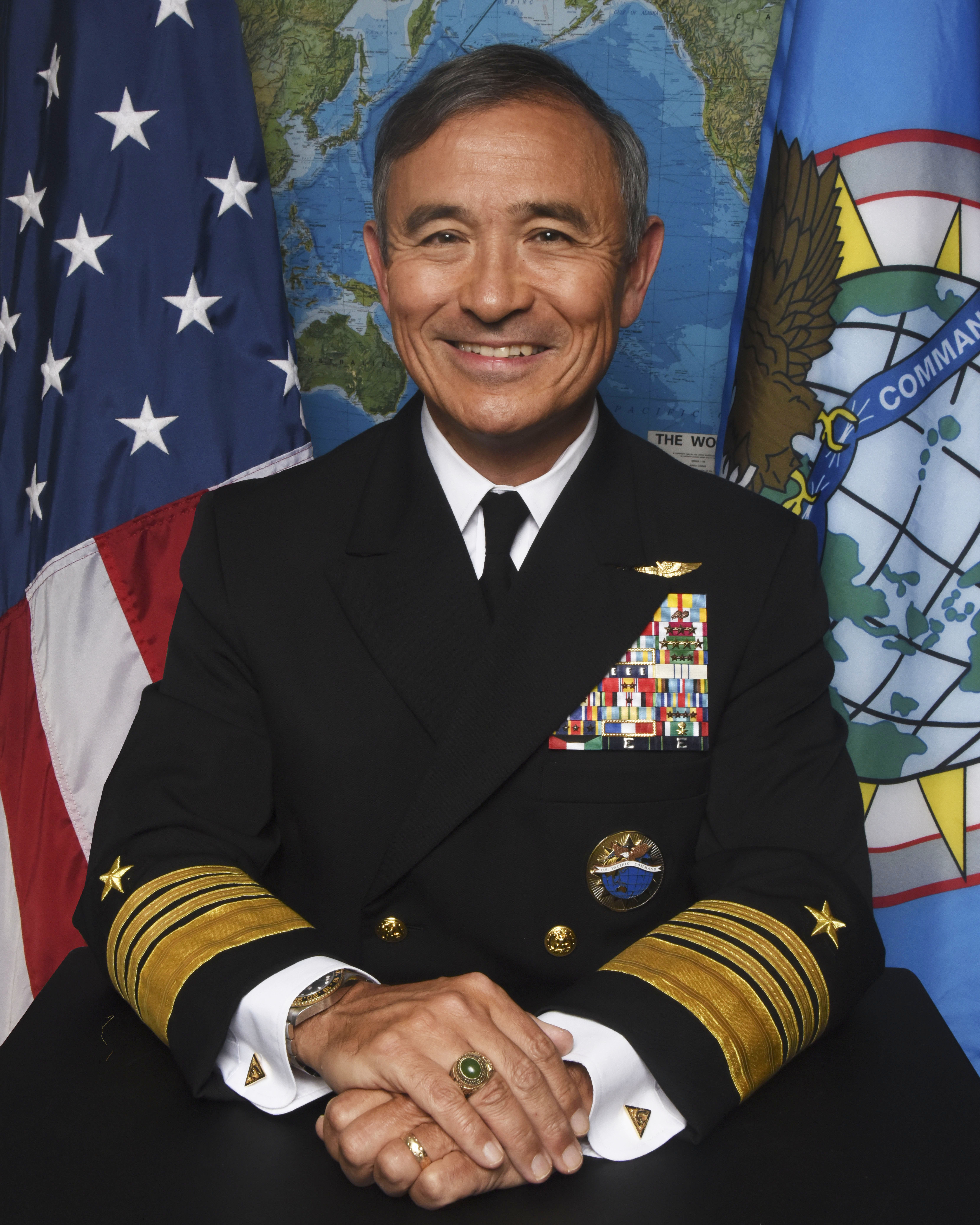 Commander, USPACOM